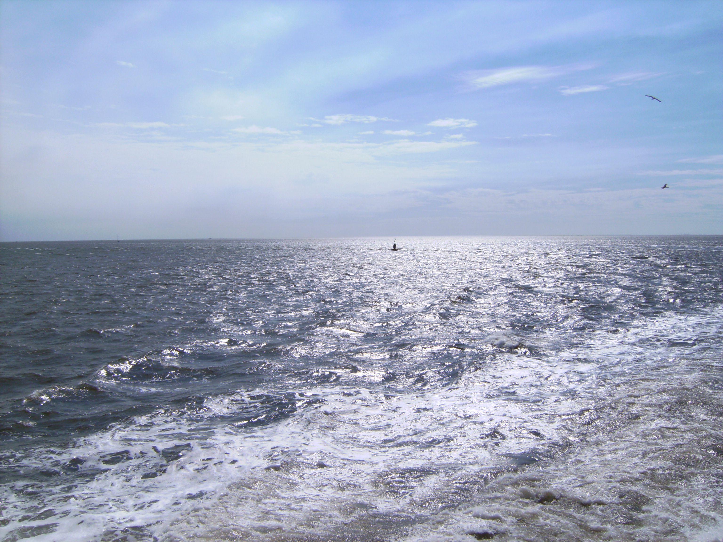 Wadden Sea, between Terschelling and Harlingen